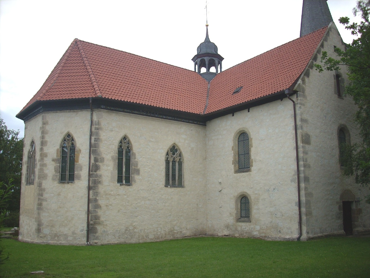 Lühnde (District of Hildesheim, Germany), St. Martin Lutheran Church